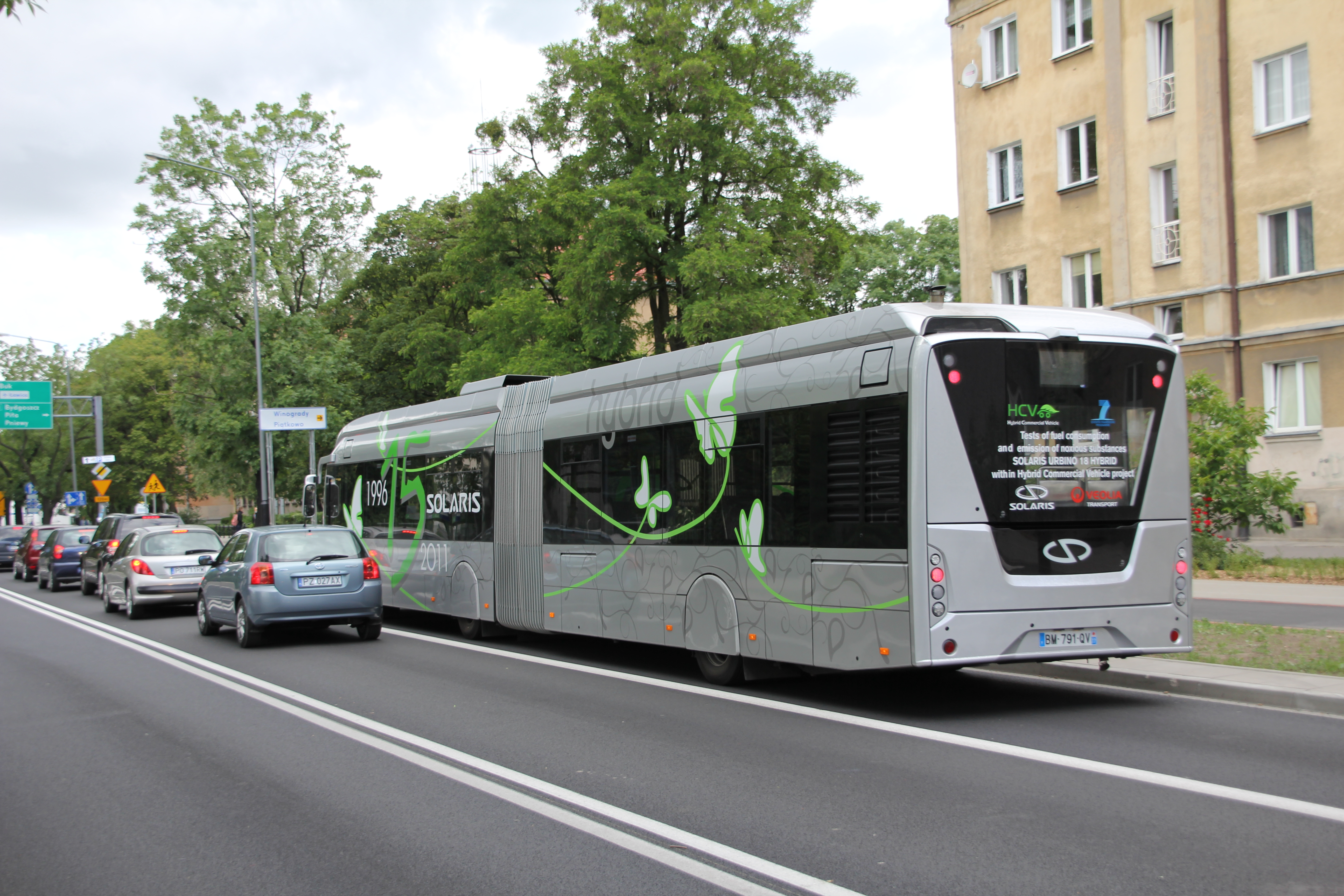 Solaris Urbino 18 Hybrid MetroStyle bus (reg. BM-791-QV, built 2011) in Poznań on Bukowska Street, Poland.